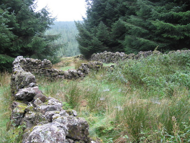 Old enclosure in the forest